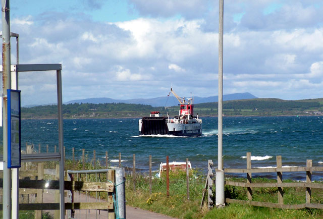 MV Loch Ranza, the ferry for Gigha, coming in to land at Tayinloan, Argyll